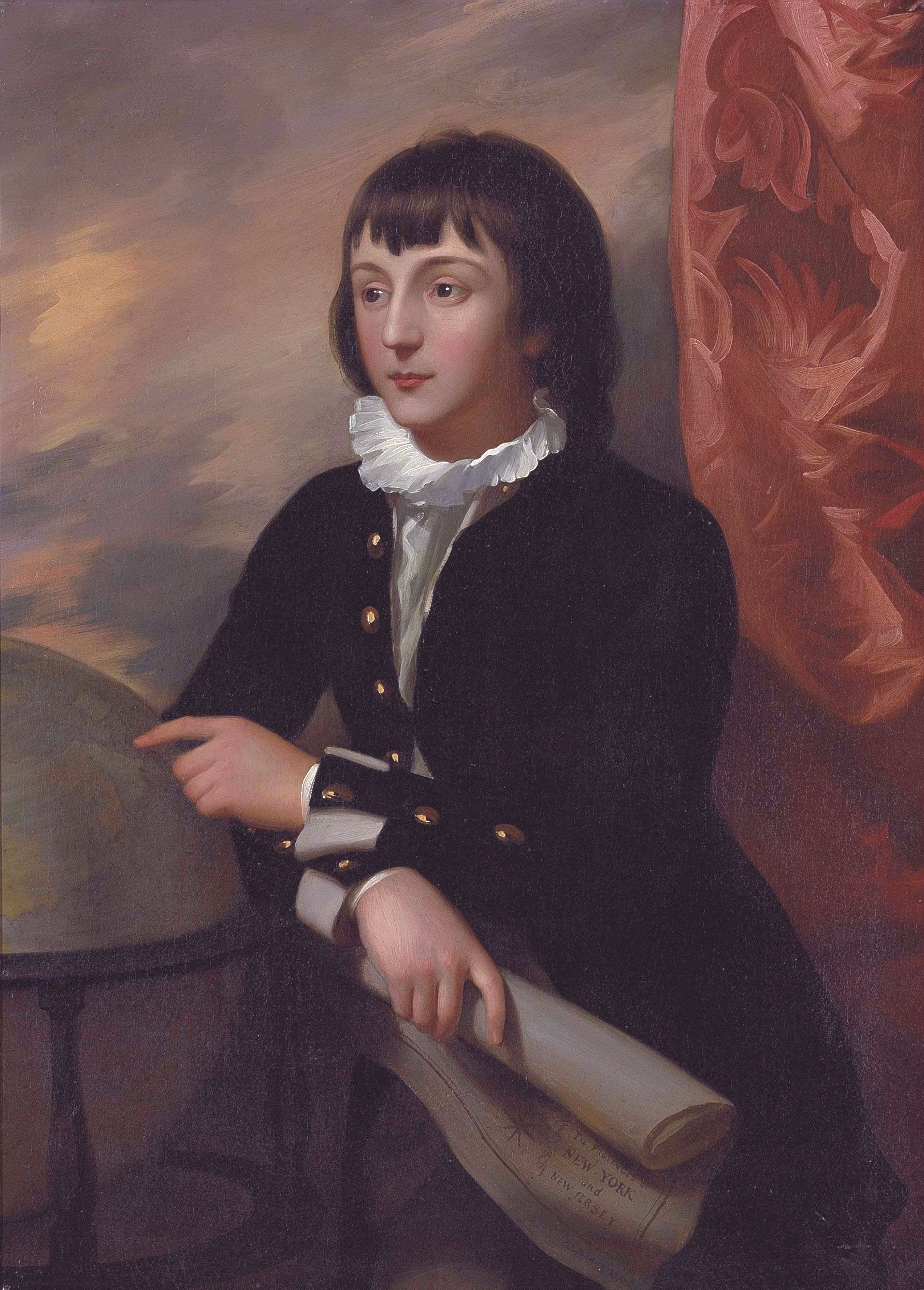 Portrait of William Wellesley-Pole, 1st Baron Maryborough, and 3rd Earl of Mornington (1763-1845)